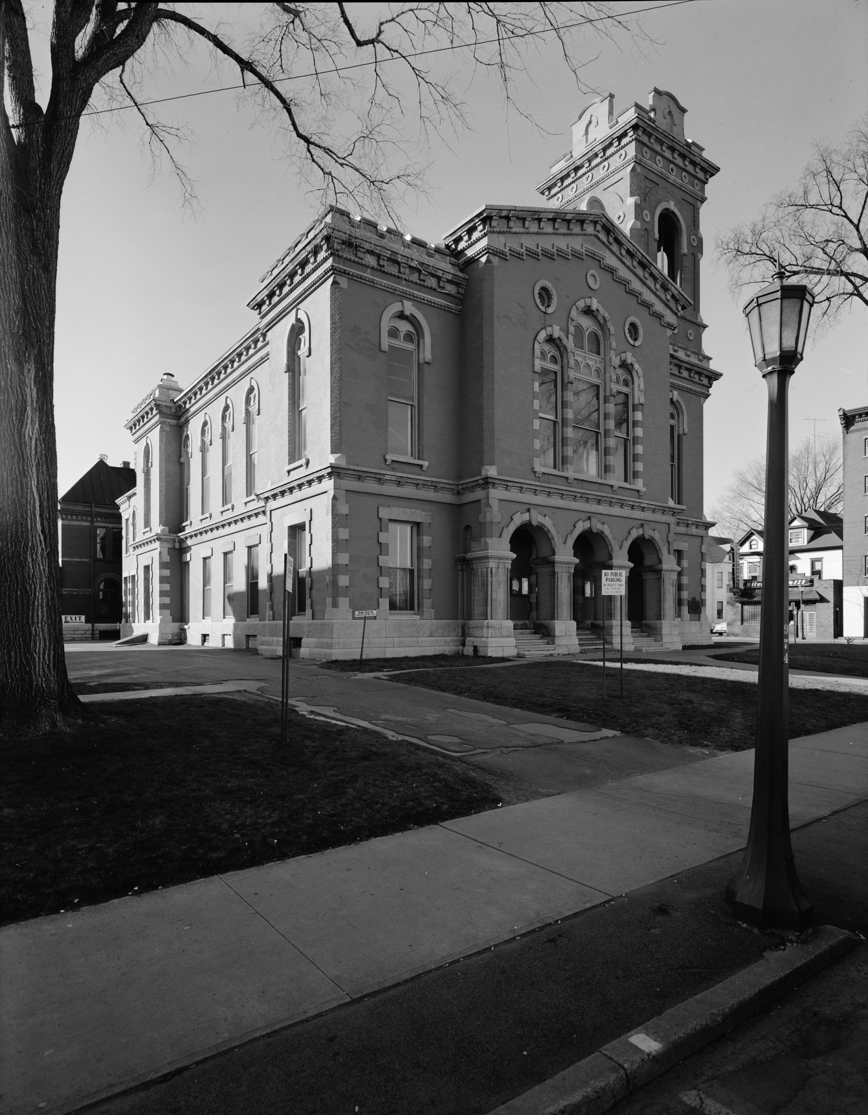 Old Jefferson County Courthouse, Arsenal & Sherman Streets, Watertown (Jefferson County, New York) cropped This file comes from the Historic American Buildings Survey (HABS), Historic American Engineering Record (HAER) or Historic American Landscapes Survey (HALS). These are programs of the National Park Service established for the purpose of documenting historic places. Records consist of measured drawings, archival photographs, and written reports. When reusing please credit: Library of Congress, Prints & Photographs Division, NY,23-WATO,2-1 This tag does not indicate the copyright status of the attached work. A normal copyright tag is still required. See Commons:Licensing for more information. This work is in the public domain in the United States because it is a work prepared by an officer or employee of the United States Government as part of that person’s official duties under the terms of Title 17, Chapter 1, Section 105 of the US Code. See Copyright. Note: This only applies to original works of the Federal Government and not to the work of any individual U.S. state, territory, commonwealth, county, municipality, or any other subdivision. This template also does not apply to postage stamp designs published by the United States Postal Service since 1978. (See § 313.6(C)(1) of Compendium of U.S. Copyright Office Practices). It also does not apply to certain US coins; see The US Mint Terms of Use. This file has been identified as being free of known restrictions under copyright law, including all related and neighboring rights. Object location43° 58′ 31″ N, 75° 54′ 51″ W